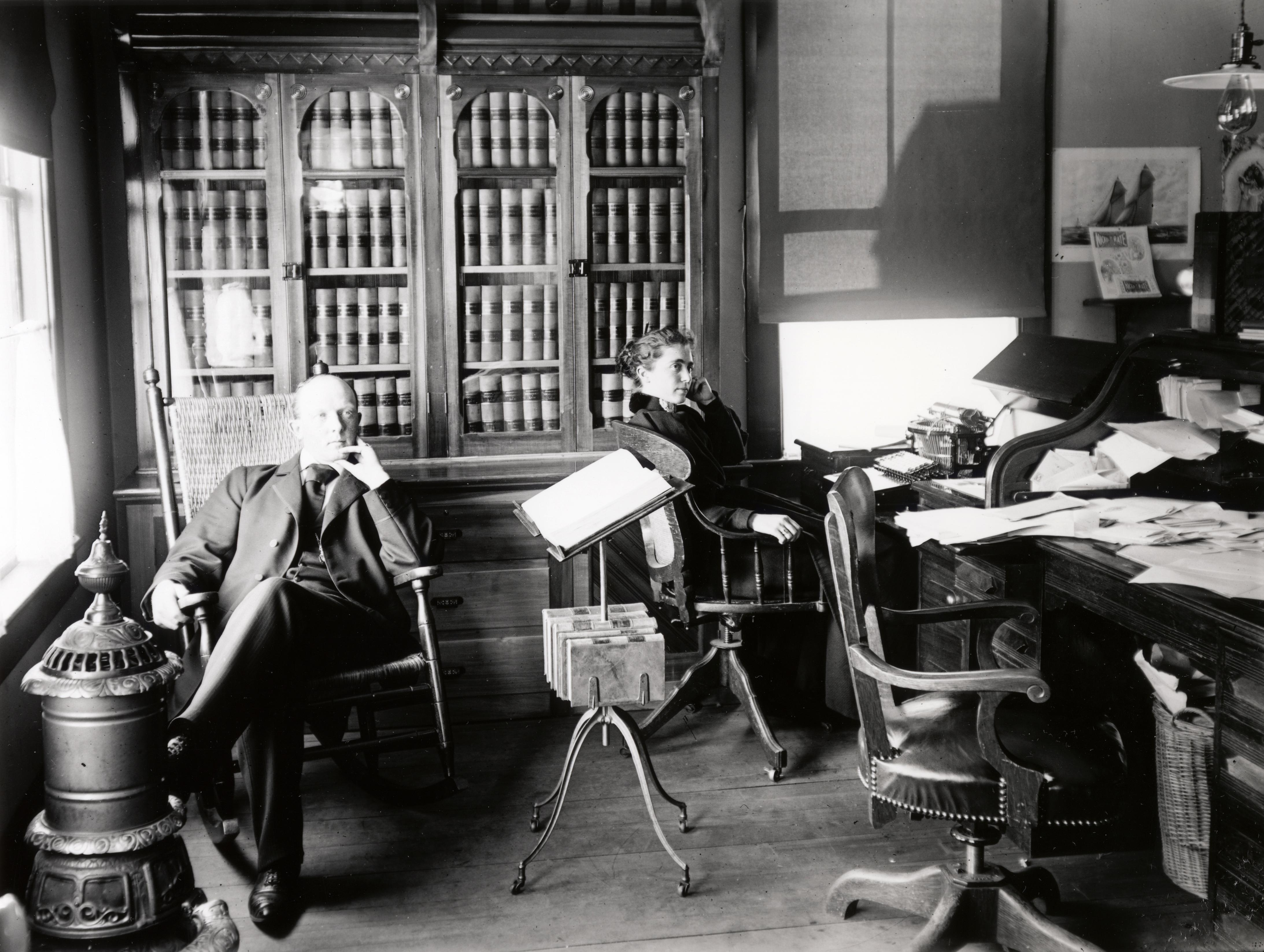 Maine attorney Belle Ashton Leavitt with her law partner and brother-in-law Fred J. Allen, member of the Maine Legislature. Allen was married to Ida S. Leavitt, Belle Leavitt's sister. Belle Leavitt was the third woman admitted to the Maine Bar Association. Admitted to the Bar in 1900, Leavitt lived in Sanford, Maine. Photographic print from glass negative.